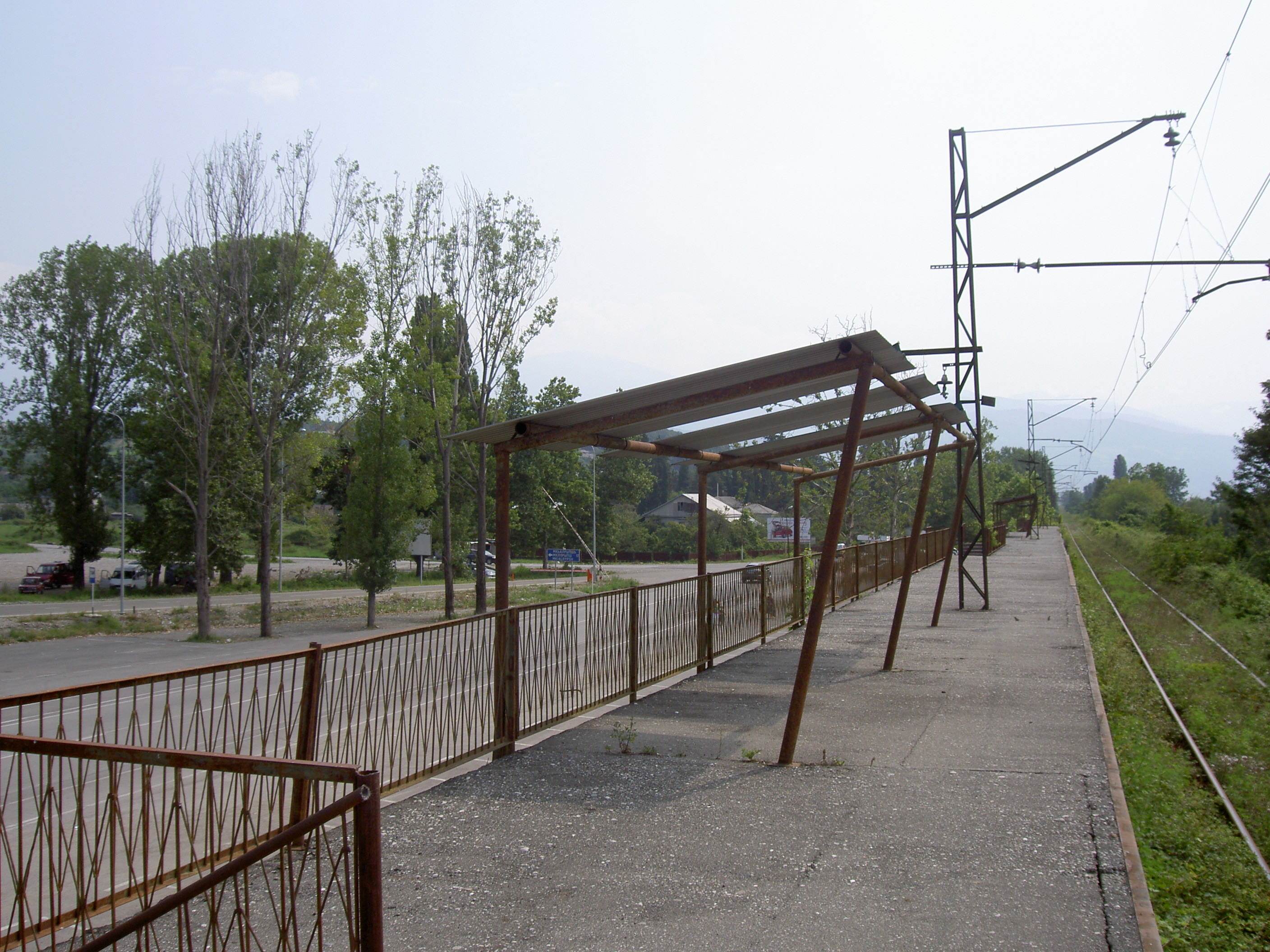 Psou station